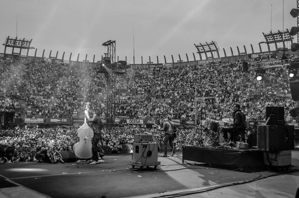 LIVE Foro Sol México 2014